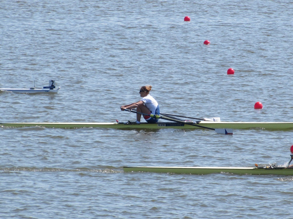 Miroslava Topinková Knapková at the 2016 European Rowing Championships in Brandenburg an der Havel, Germany